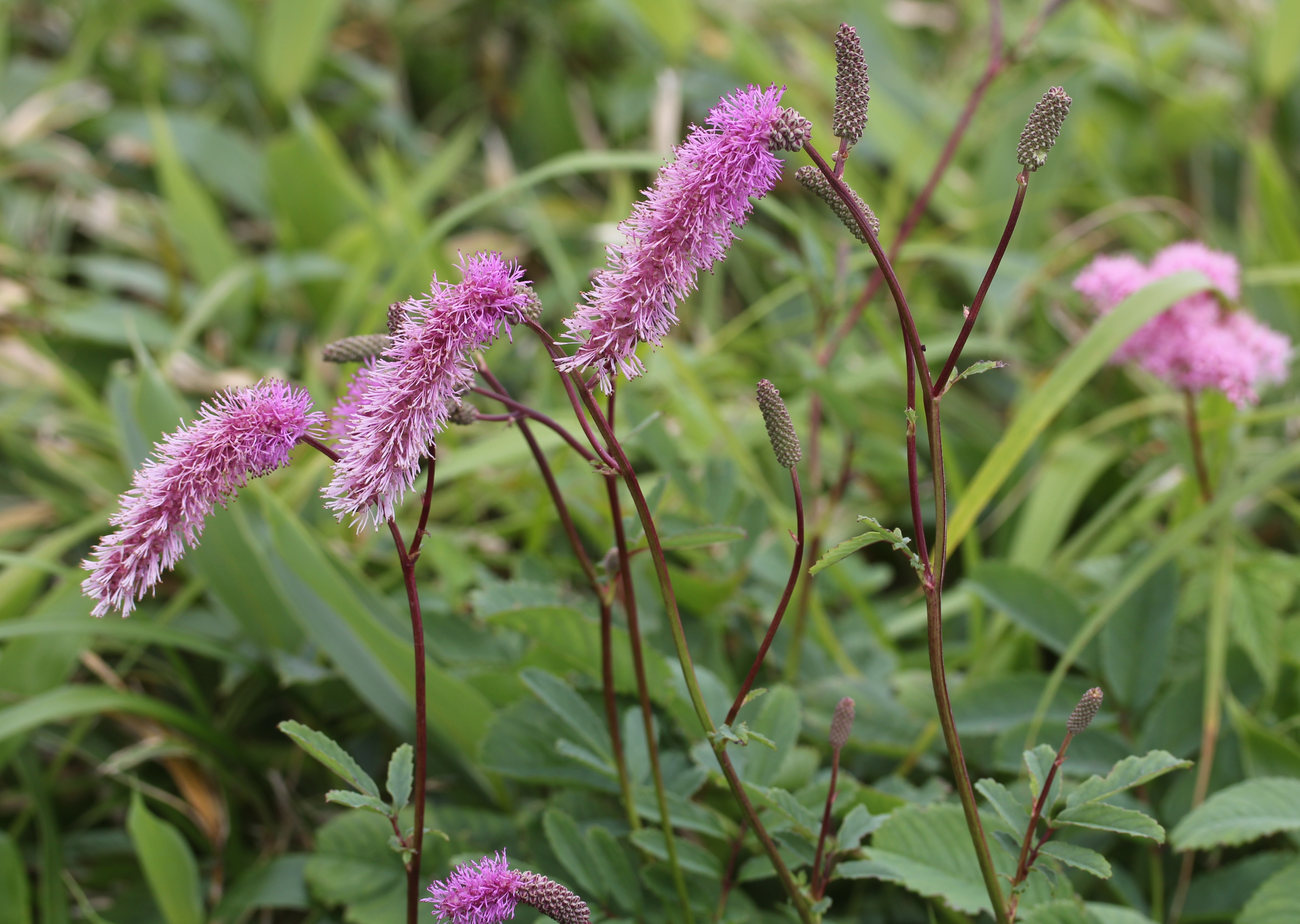 Sanguisorba hakusanensis in Mount Sannomine, Ono, Fukui prefecture, Japan.